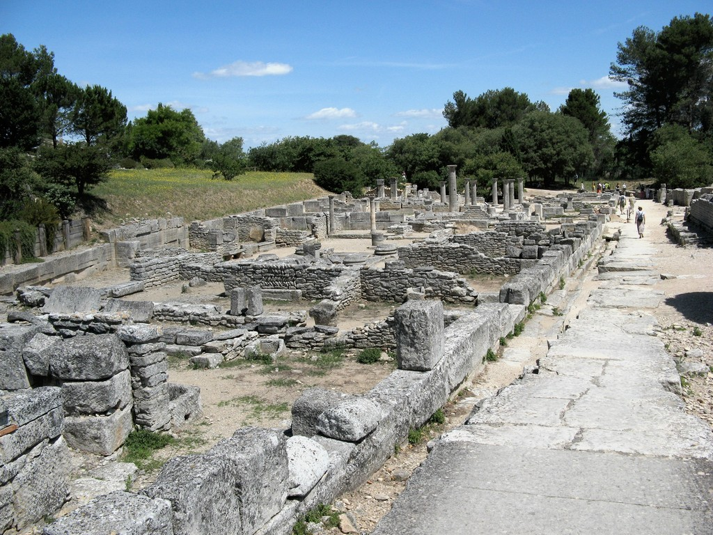 St Remy de Provence-Glanium